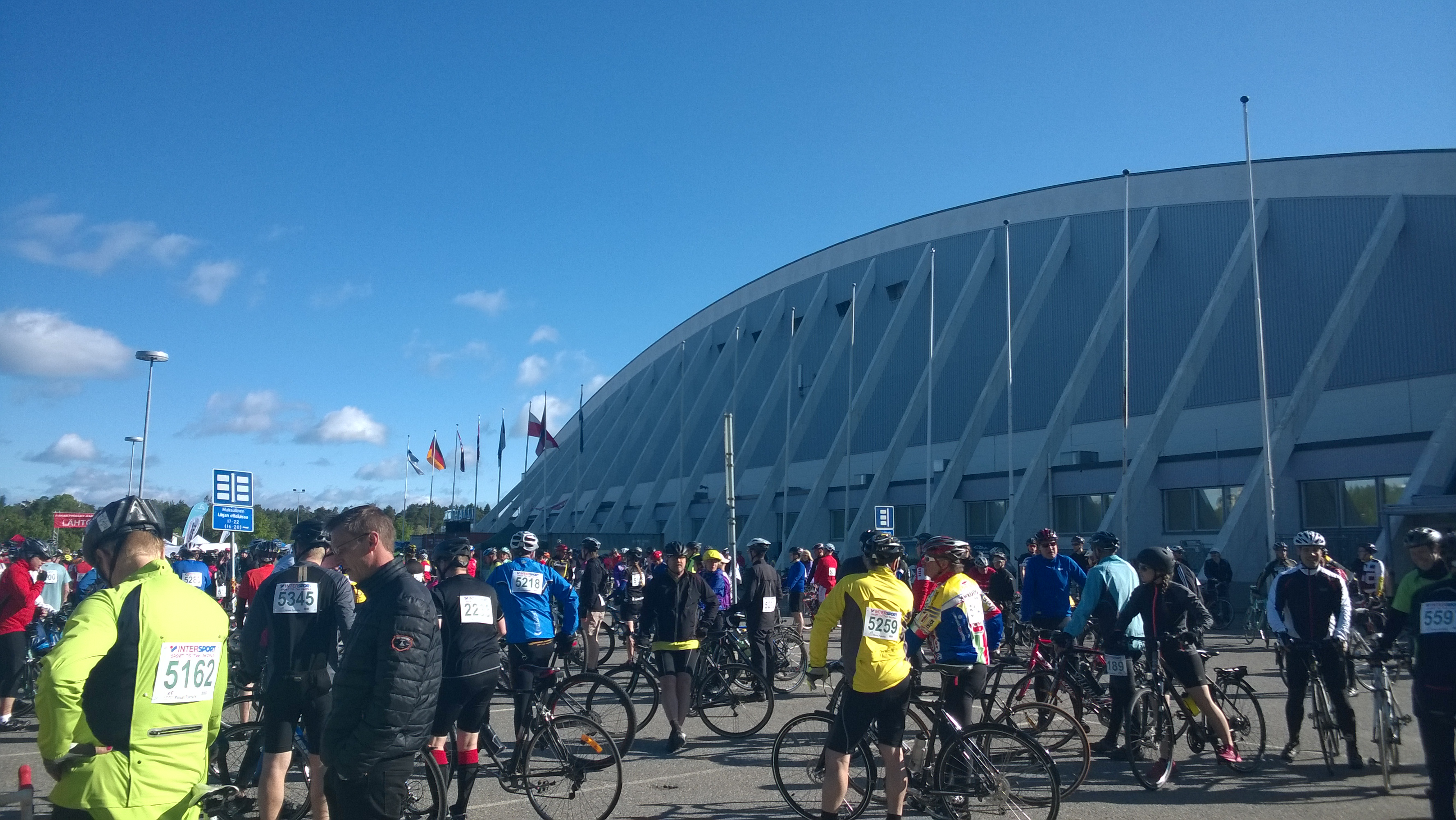 Starting place of the Pirkan pyöräily at Hakametsän jäähalli (Tampere Ice Stadium) in Tampere on 7 June 2015.